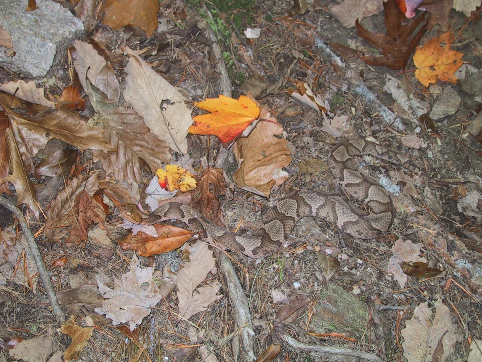 Image title: Copperhead snake Image from Public domain images website